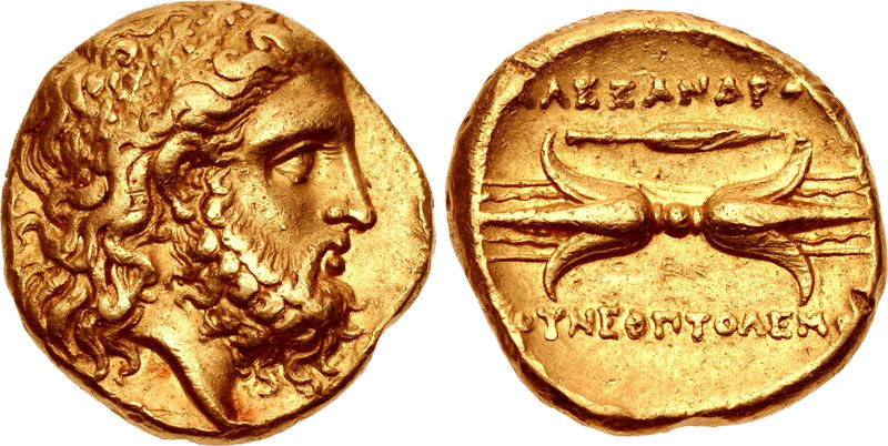 Alexander the Molossian King of Epeiros 350 330 BC